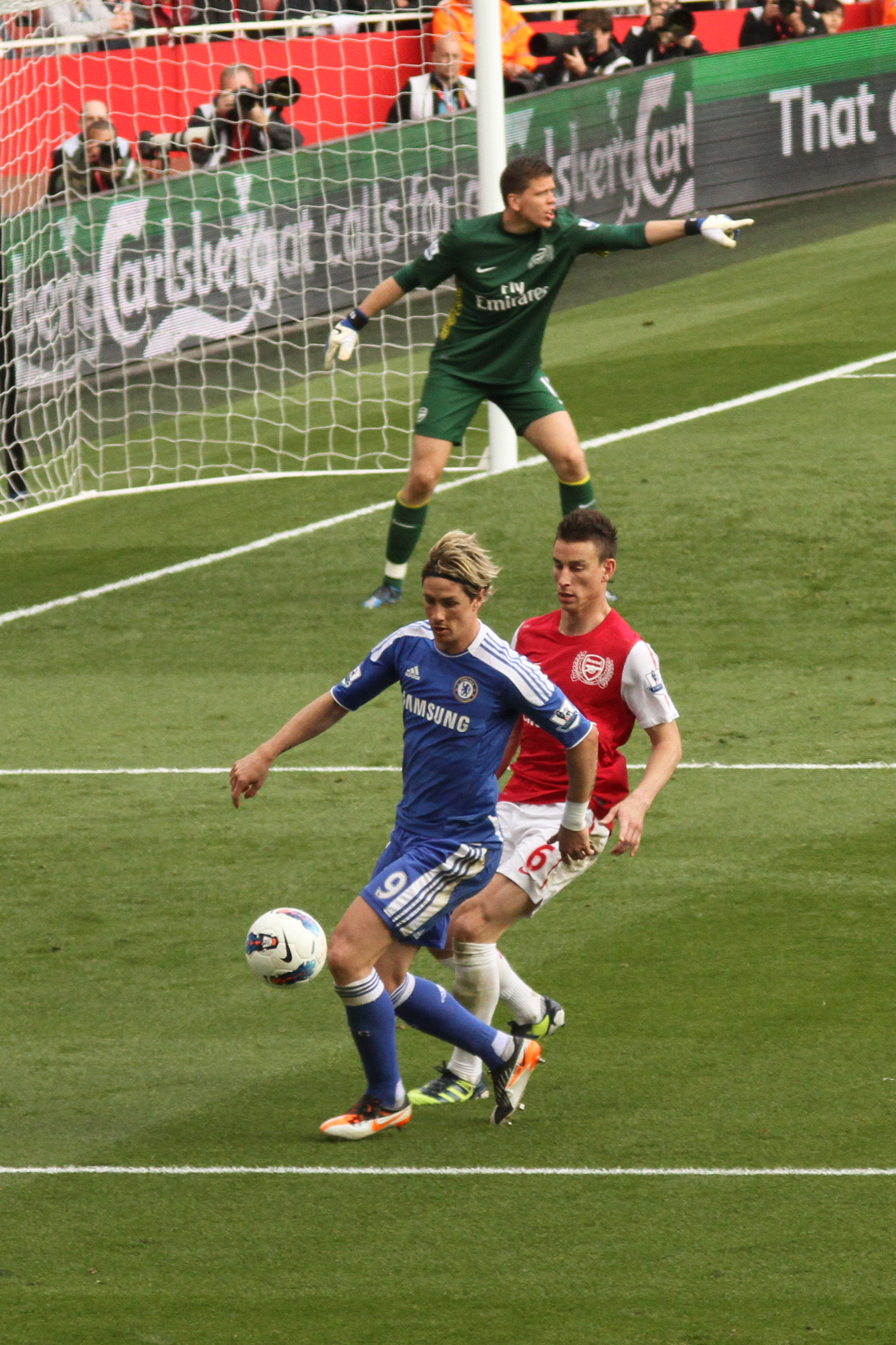 Torres defended by Koscielny.